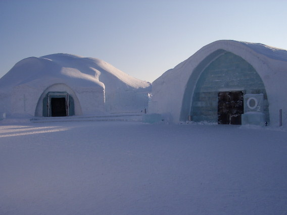 Ice hotel in Kiruna.